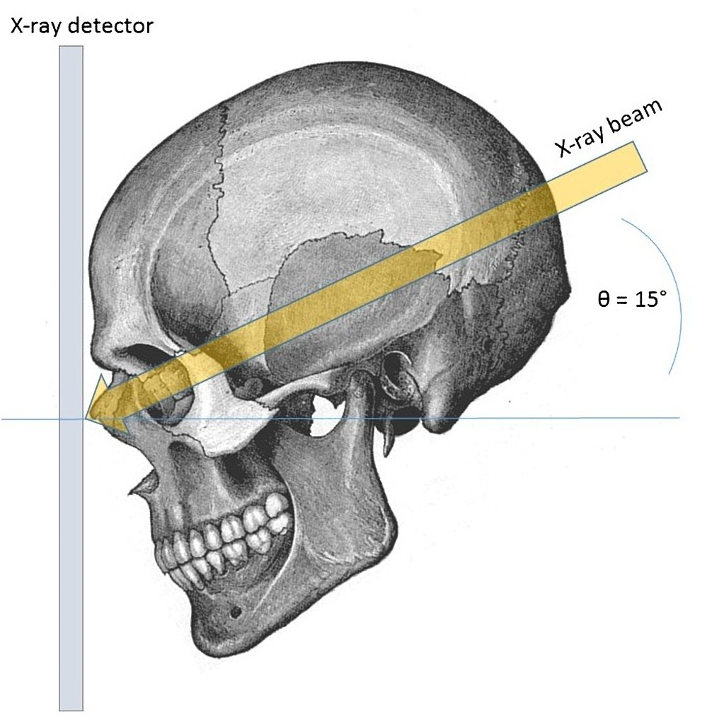 The Caldwell view is meant to show the frontal sinus more clearly than a standard PA skull radiograph. It is obtained with 15 degrees of caudal angulation of a PA beam. Diagram of the Caldwell view. Modified image from Gray's anatomy via Wikimedia Commons. The original image can be seen at ( Case courtesy of Dr Matt A. Morgan, . From the case rID: 35611